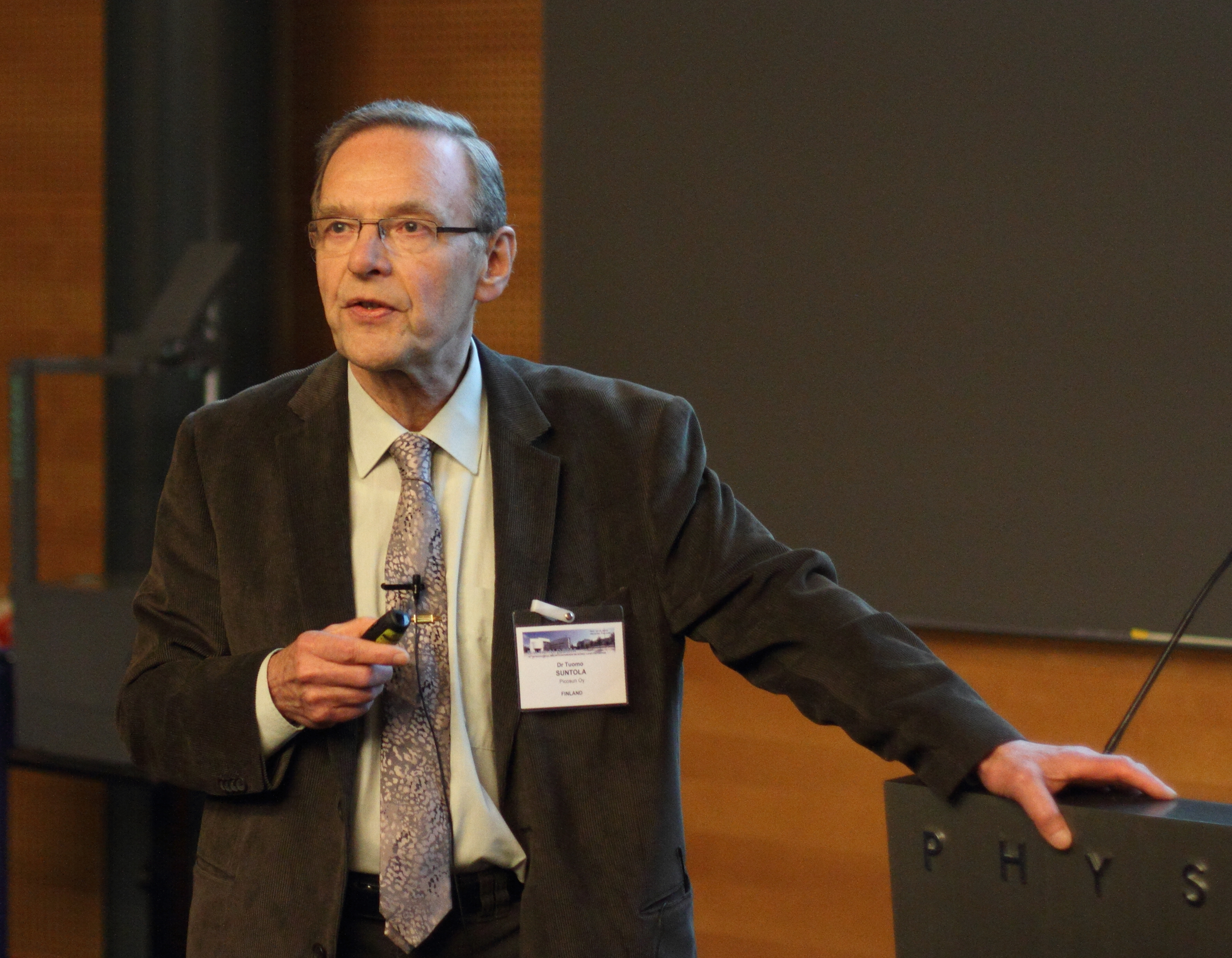 Tuomo Suntola giving the opening invited talk entitled "From ideas to global industry - 40 years of ALD in Finland" at the International Baltic ALD conference, May 12, 2014, in Helsinki, Finland